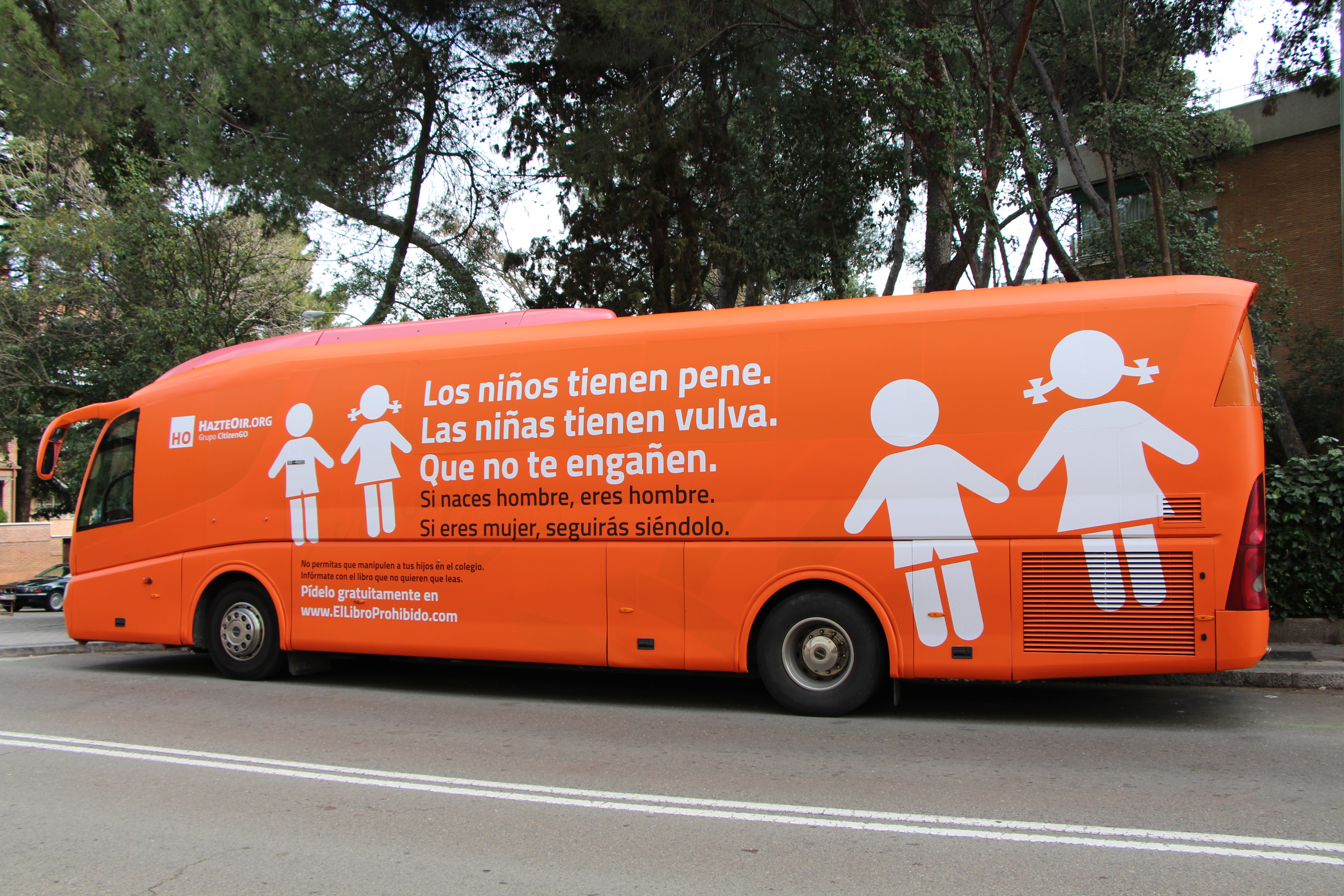 Transphobic bus chartered by HazteOír (Make Yourself Heard) on February 27. The bus reads "Boys have penises. Girls have vulvas. Don't be fooled. If you were born a man, you're a man. If you're a woman, you'll keep being one. Don't let them manipulate your kids at school. Inform yourself with the book they don't want you to read. Order it for free at "